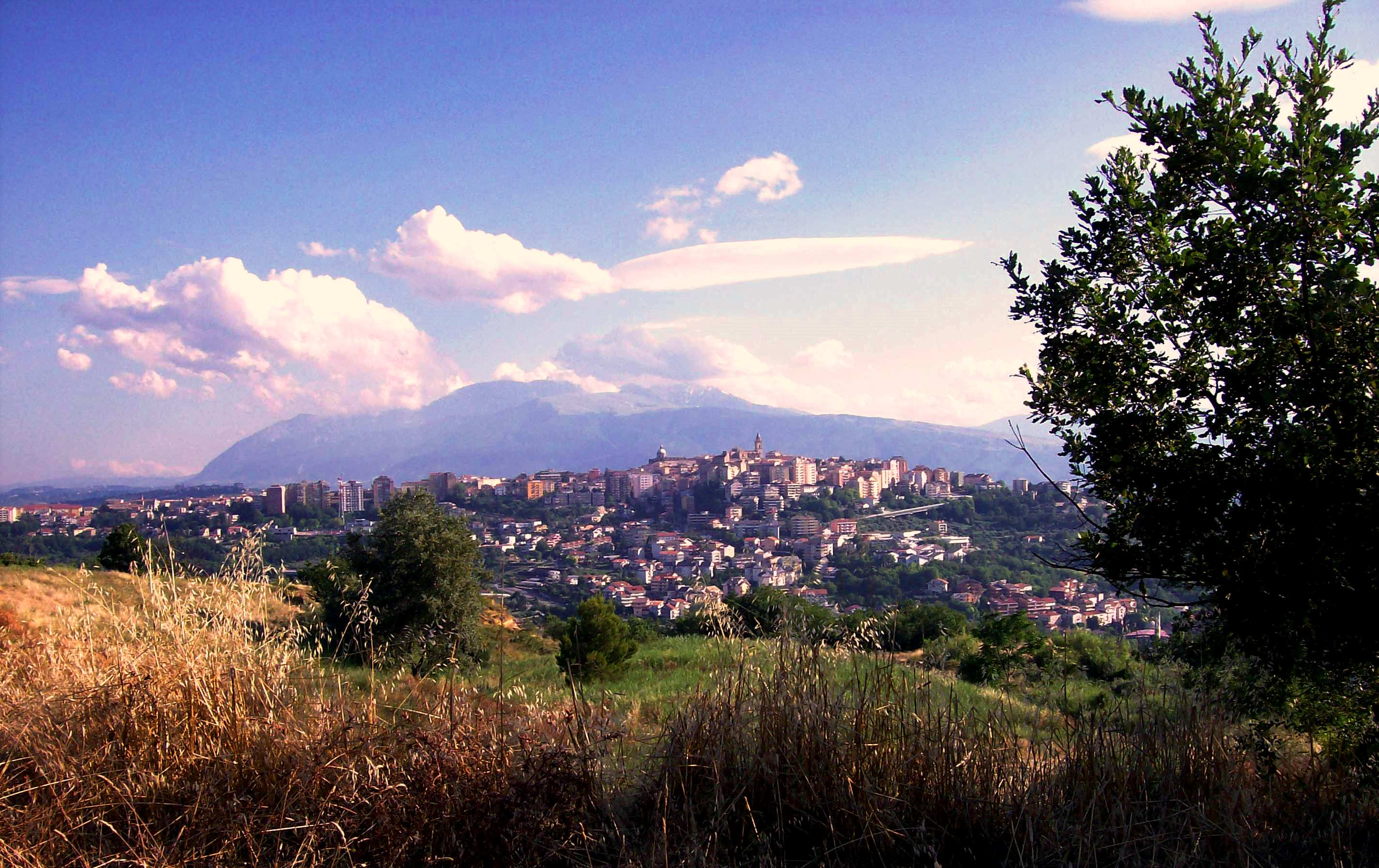 A picture of Chieti panorama from a hill